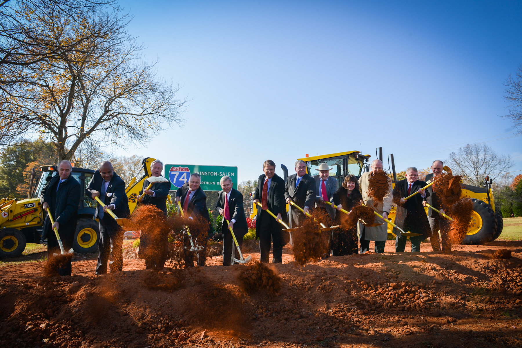 I-74 Groundbreaking in Kernersville with Secretary Tata and Governor McCrory on November 14, 2014.